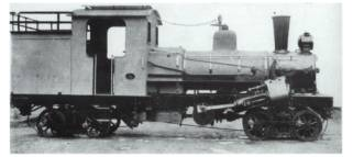 Price Type E locomotive. Geared logging locomotive built in 1923 by A & G Price Ltd. of Thames, New Zealand. The locomotive combined the design of the Climax Class B locomotive with trucks of the Heisler design.